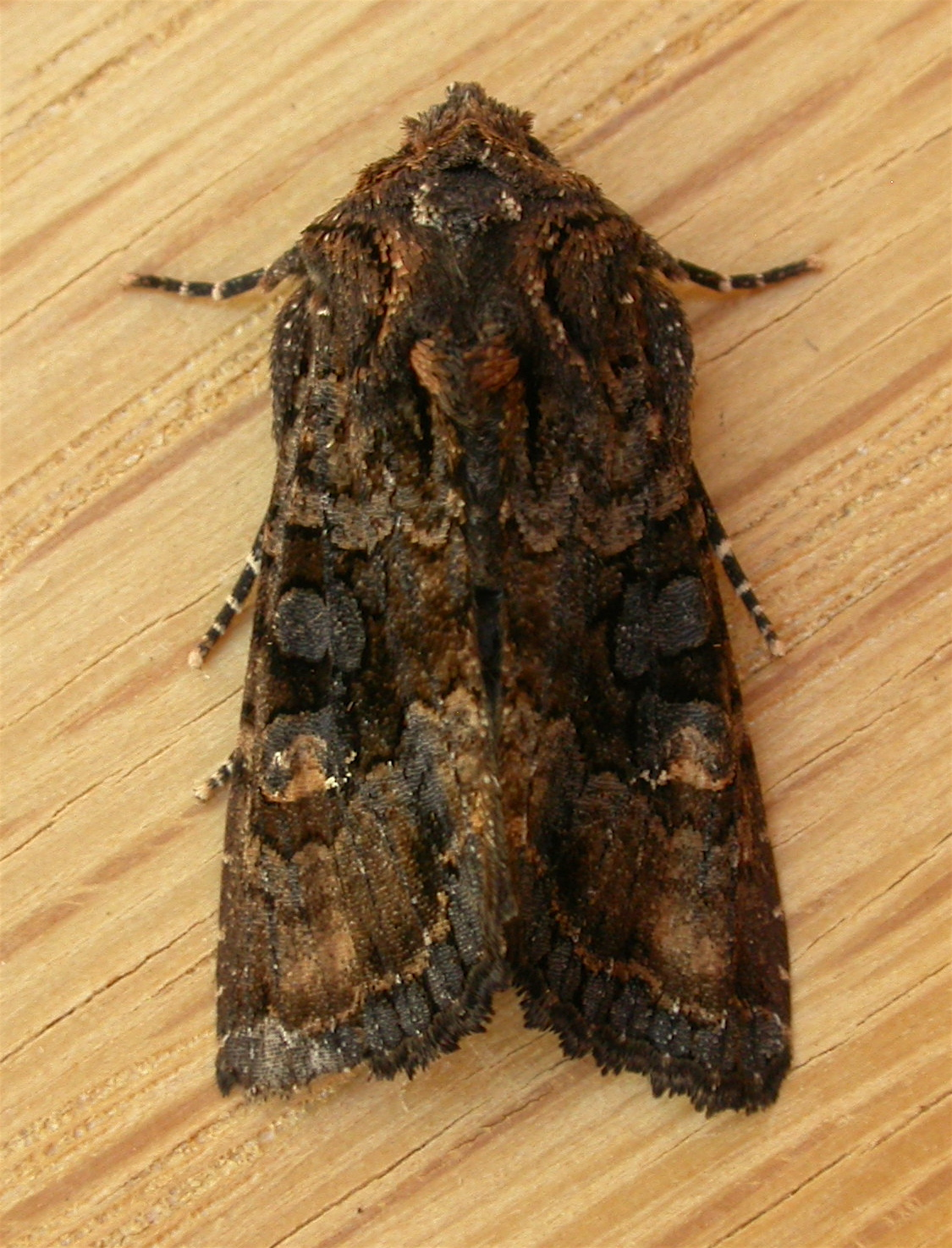 Neumichtis archephanes Turner, 1920, to MV light, Aranda, ACT, 3/4 November 2008